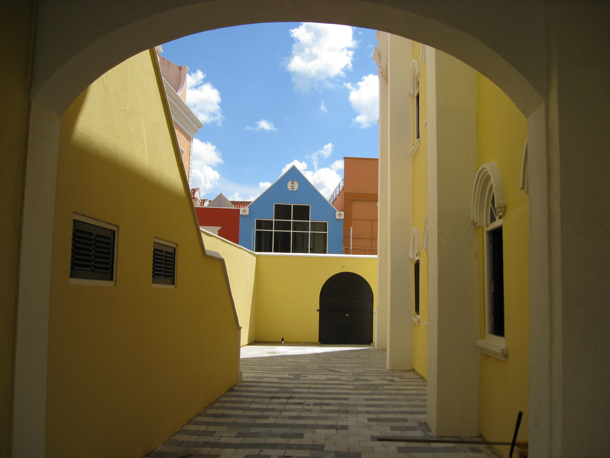 Mikvé Israel-Emanuel Synagogue, Willemstad, Curaçao, courtyard view looking outward